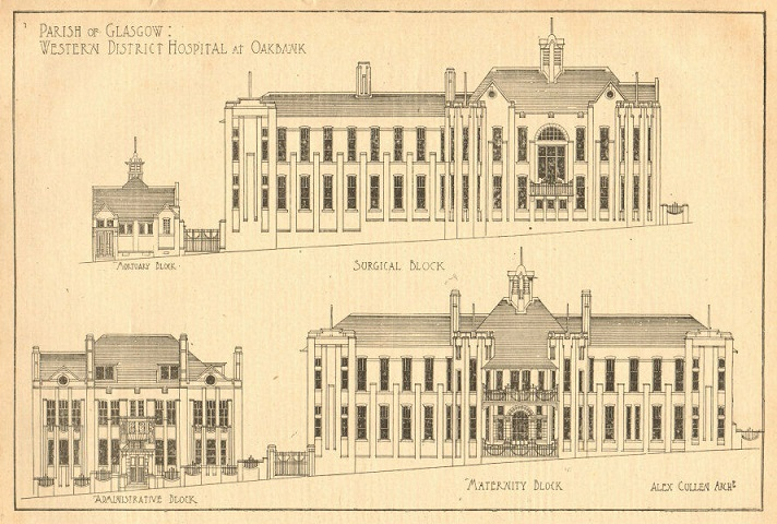 Antique print from architectural periodical: Western District Hospital at Oakbank